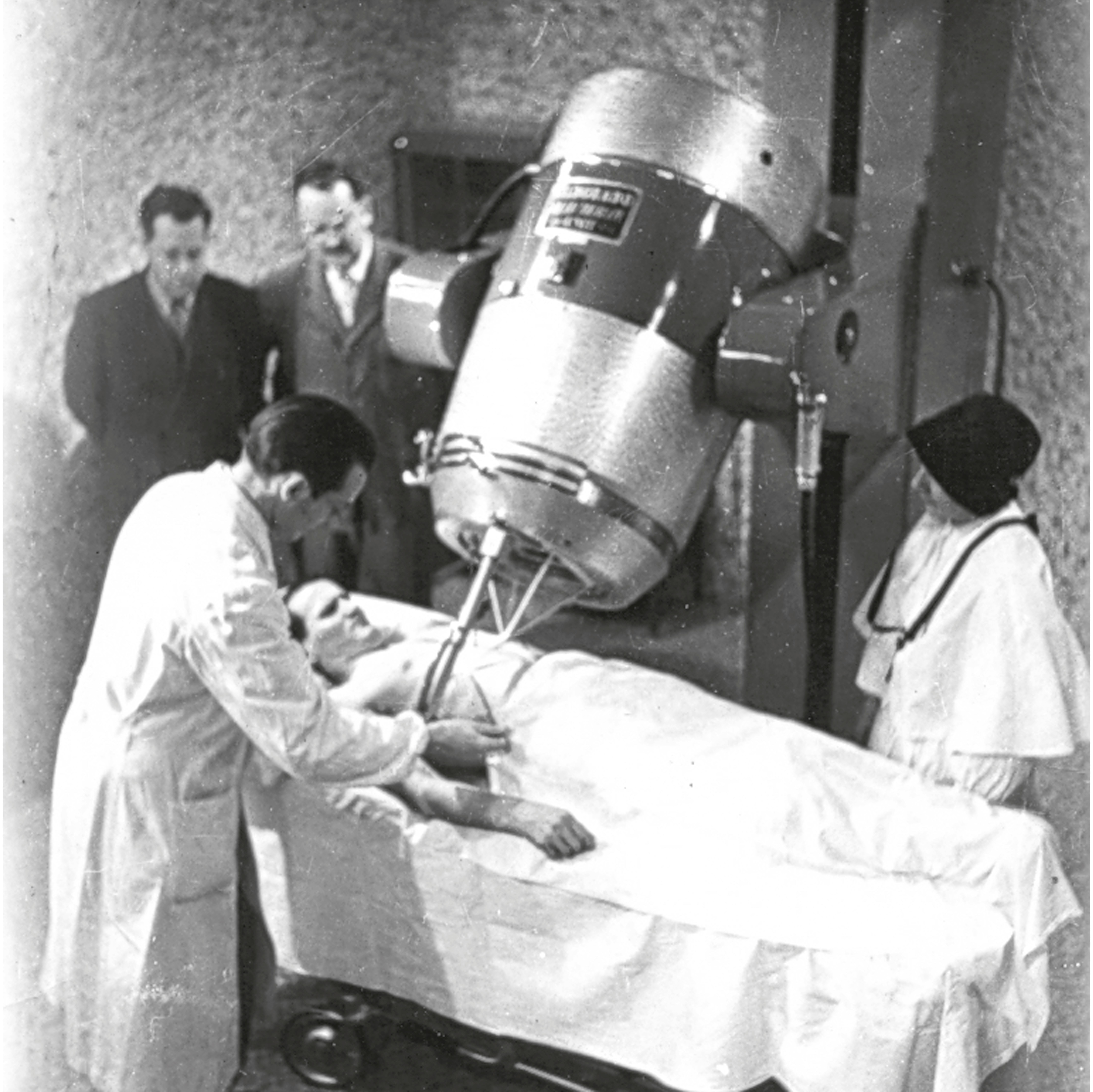 The first cobalt teletherapy machine in Italy, installed in Borgo Valsugana in 1953. Here Dr. Adriano Caumo prepares a patient for radiation flanked by a nun of the department. The radiation head focuses a beam of gamma rays from the radioisotope cobalt-60 on a tumor in the patient's body.